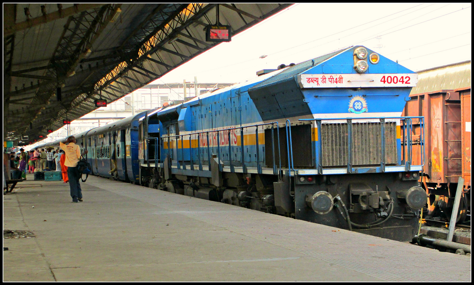 Howrah Mumbai Mail at a station with a WDP 4B Locomotive